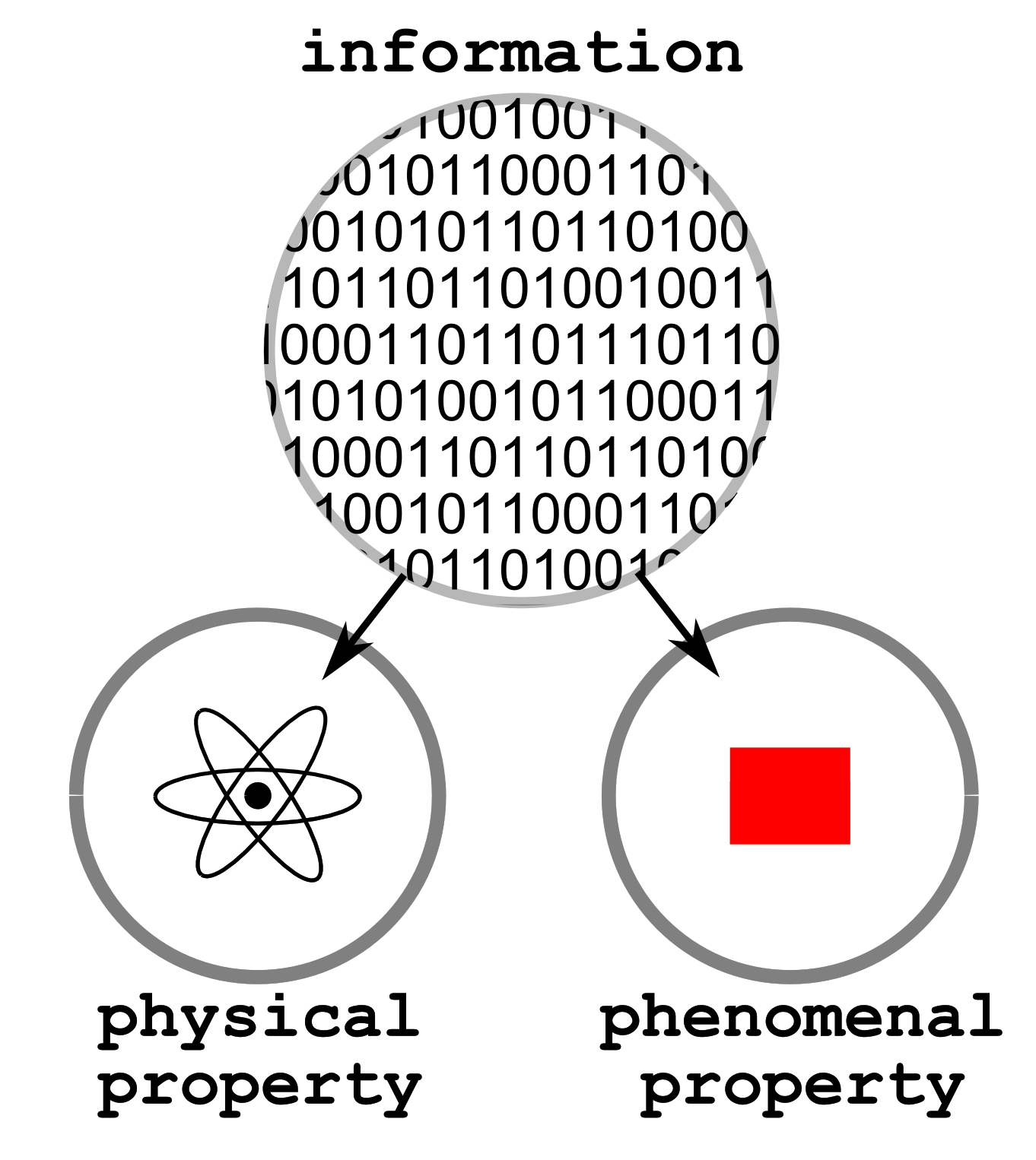 Visual representation of The double-aspect theory of information. Information space(bit space) has two types of property(physical and phenomenal)."Facing Up to the Problem of Consciousness." Journal of Consciousness Studies, 2(3):200-19, 1995.